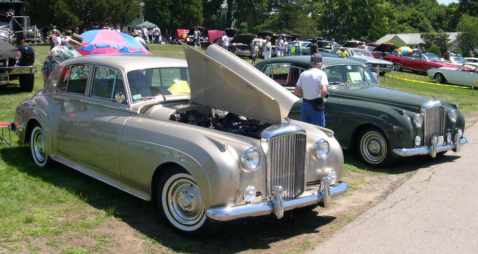 Bentley S1 standard saloon — it is not a Bentley Continental Source: Photographed at the Bay State Antique Automobile Club's July 10, 2005 show at the Endicott Estate in Dedham, MA by User:Sfoskett